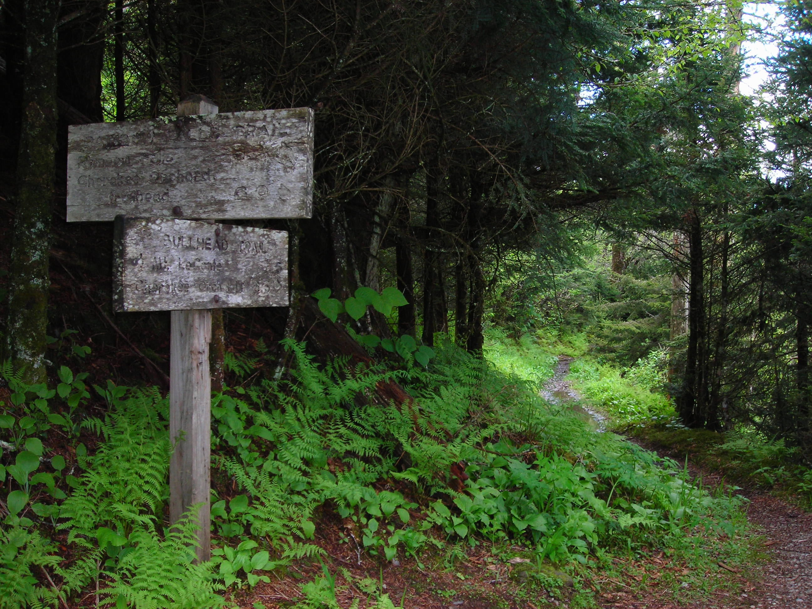 About 6 miles along either path, the Bullhead and Rainbow Falls trails merge into one footpath, about one half of a mile below the LeConte Lodge. Photo taken by myself, Scott Basford, on June 3, 2006.